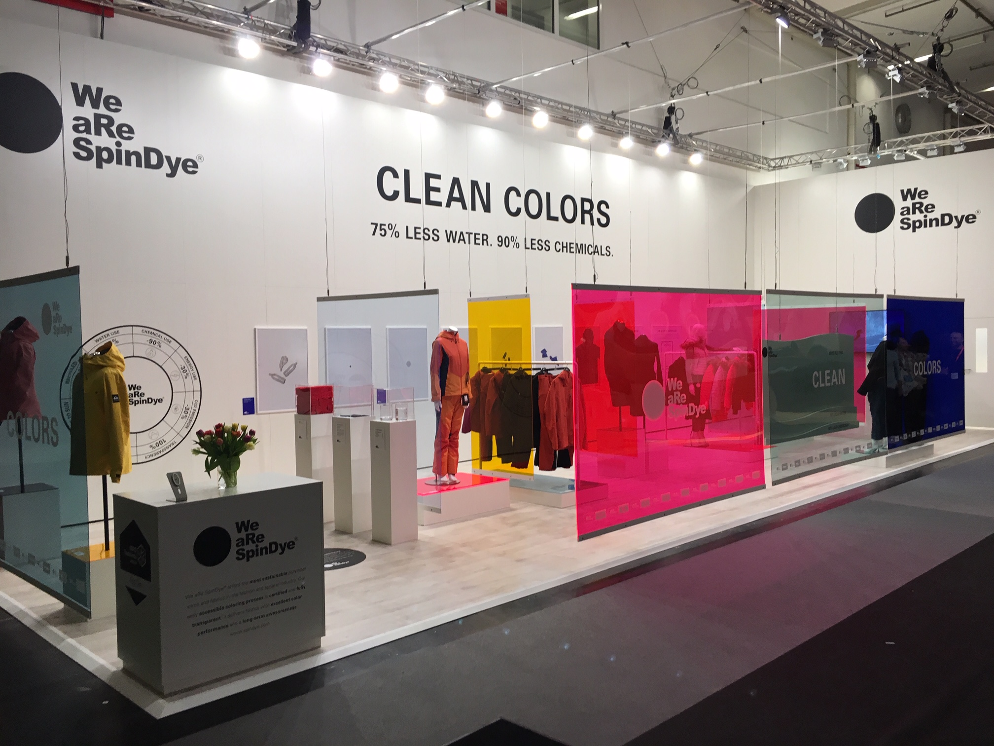 The We are Spindye booth at the Ispo trade show in Munich February 2019.